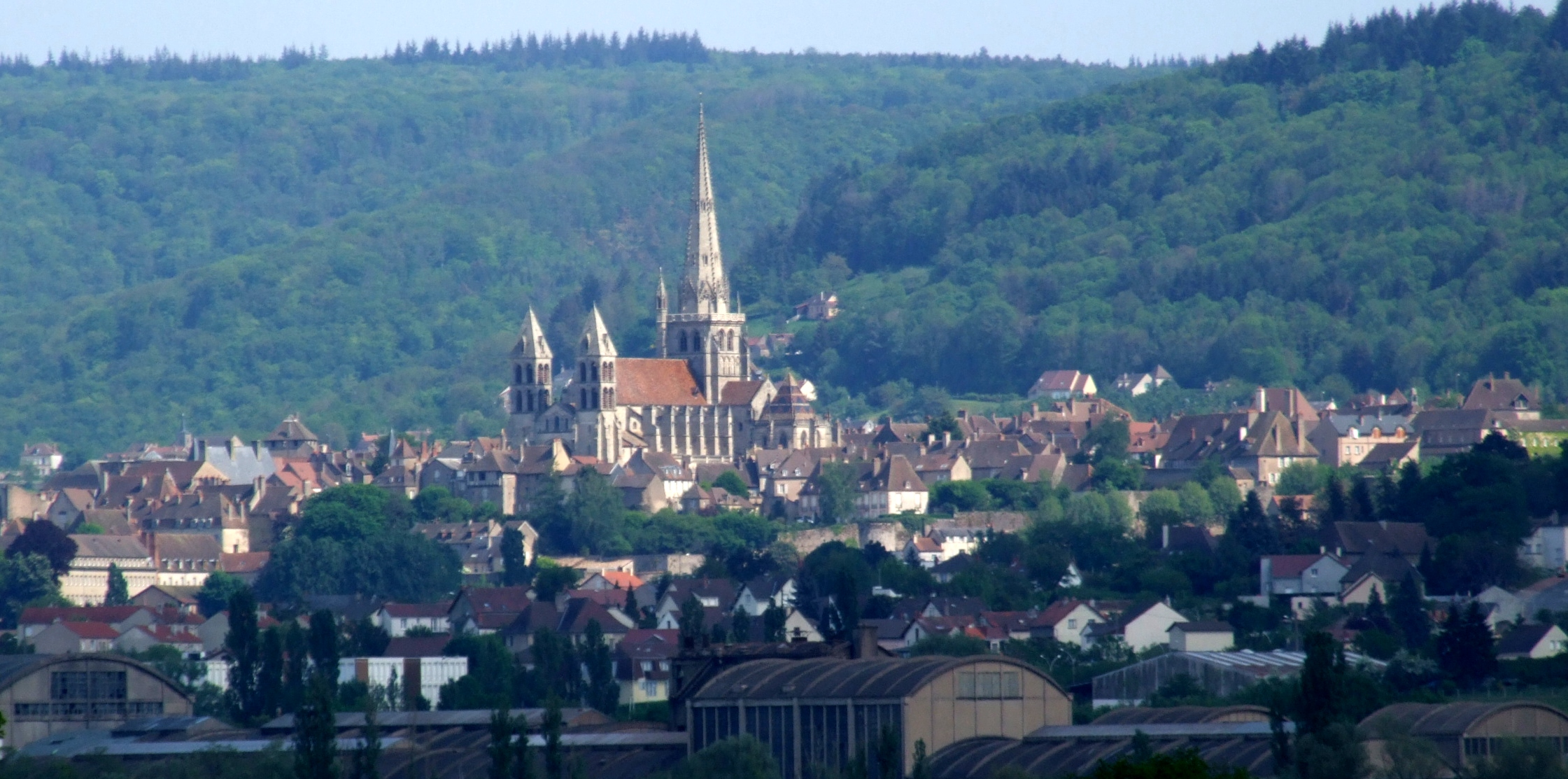 Burgundy, FRANCE